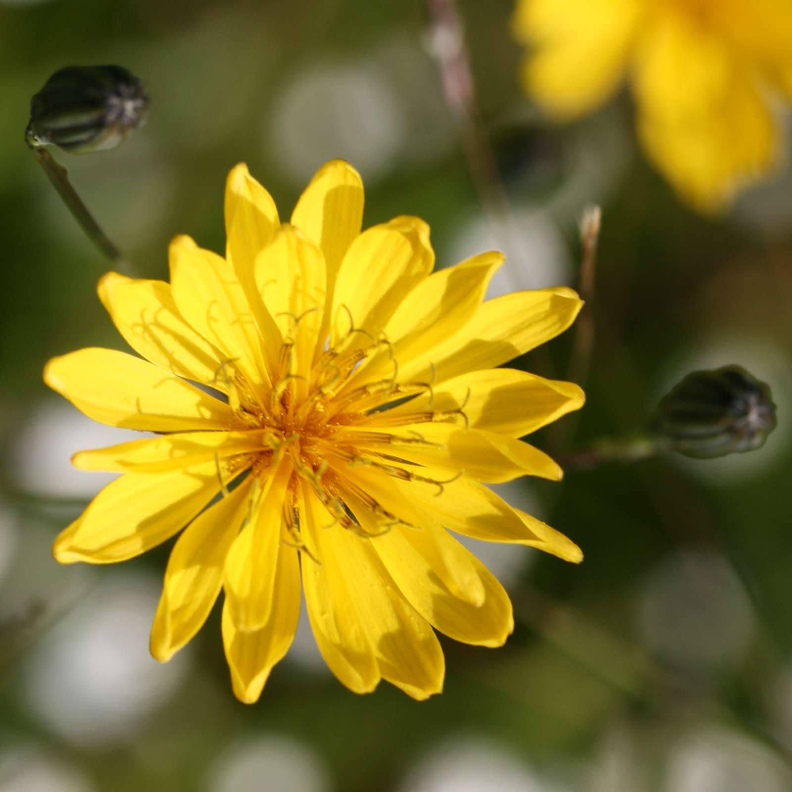 Hololeion krameri in Higashiyama Zoo and Botanical Gardens